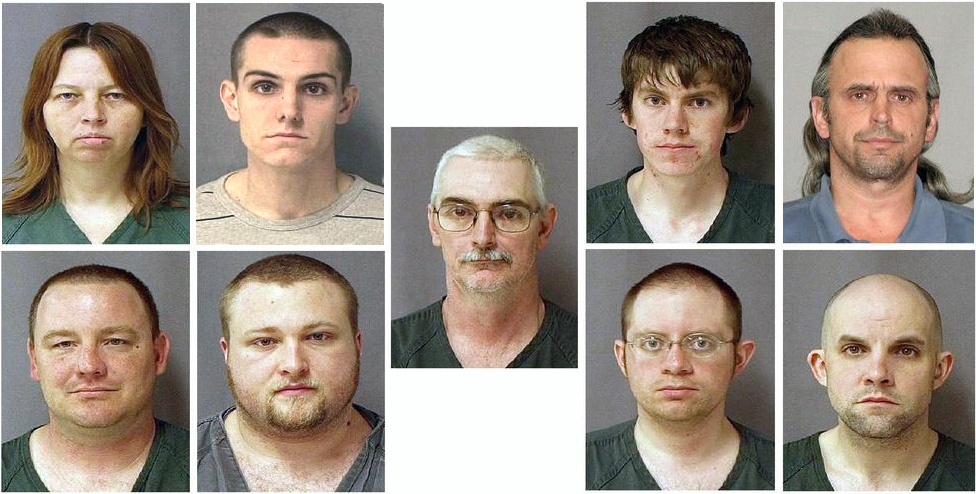 This combo of eight photos provided by the U.S. Marshals Service on Monday March 29, 2010 shows: Top row, from left: Tina Mae Stone, 44; Joshua Matthew Stone, 21; David Brian Stone Jr., 19, of Adrian, Mich,; Thomas William Piatek, 46, of Whiting, Ind.; Center of composite: David Brian Stone Sr., 44, of Clayton, Mich,; Bottom row, from left: Michael David Meeks, 40, of Manchester, Mich,; Kristopher T. Sickles, 27, of Sandusky, Ohio; Joshua John Clough, 28, of Blissfield, Mich.; and Jacob Ward, 33, of Huron, Ohio. The suspects, tied to Hutaree, a Christian militia, were charged with conspiring to kill police officers, as federal prosecutors said Monday. Piatek denied in court being the person named in the federal indictment.[1]